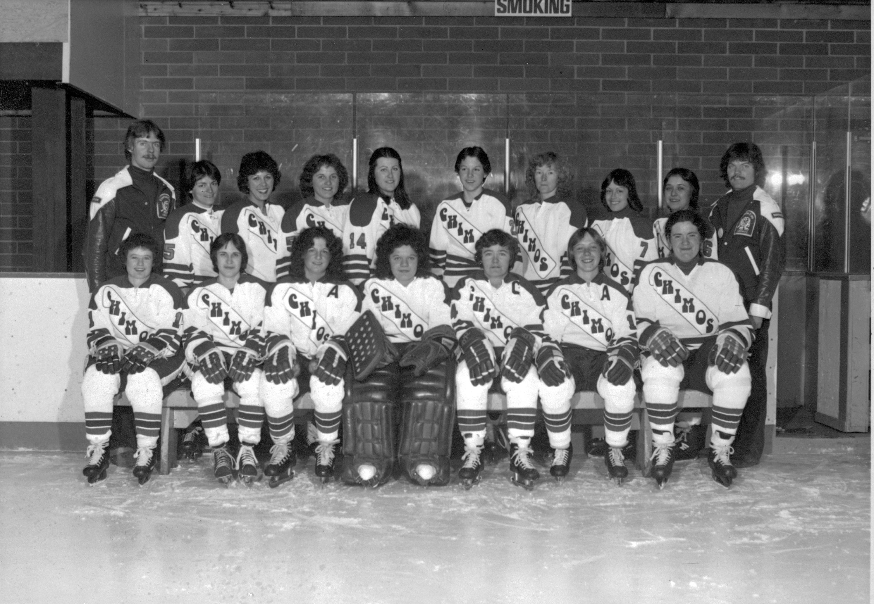 Provincial Archives of Alberta, A12903.